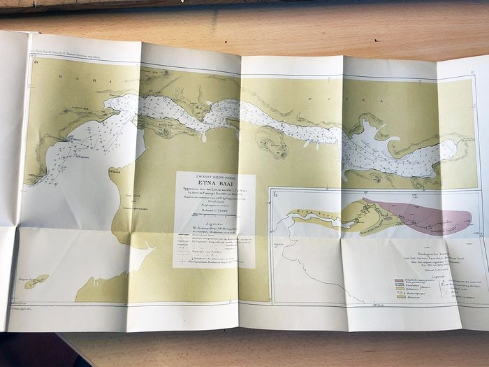 Rouffaer, G.P. et al.: De Zuidwest Nieuw-Guinea-Expeditie, 1904-5, Kon. Ned. Aardrijkskundig Genootschap, Leiden E. J. Brill, 1908 - Etna Bay.